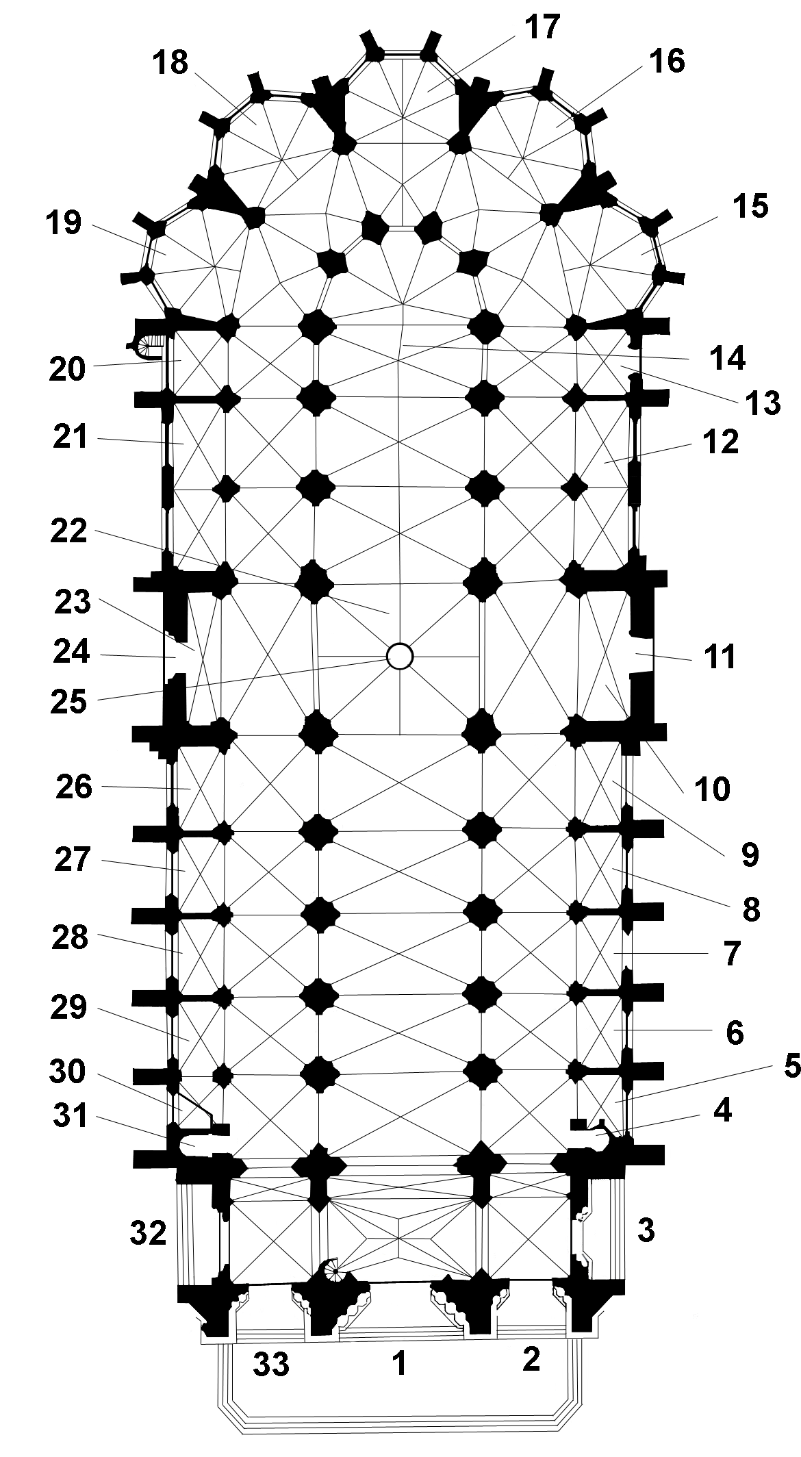 Author: Georgi Genov, Source: Georgi Genov, The ground plan of the Cathedrale in Nantes was made by me after doing research on the spot in December 2006